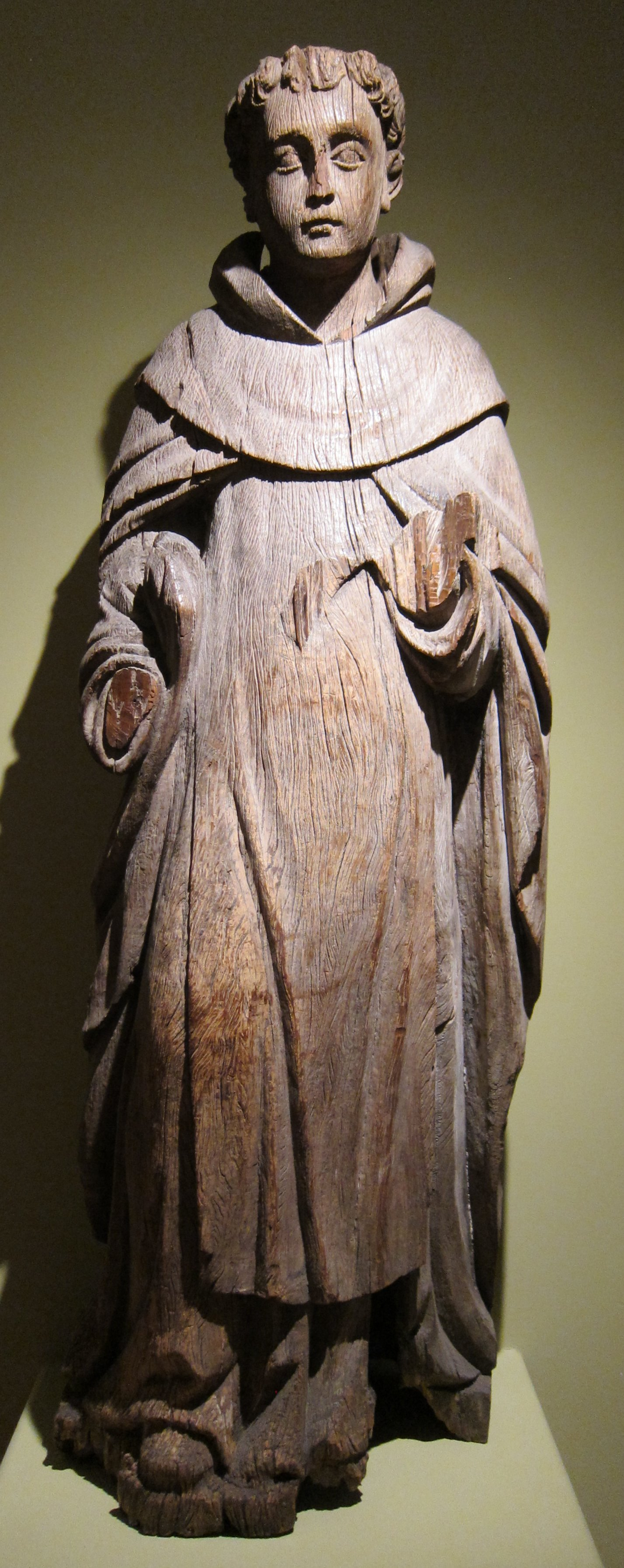 St. Thomas Aquinas, 18th century wood statue from the Philippines, Honolulu Academy of Arts